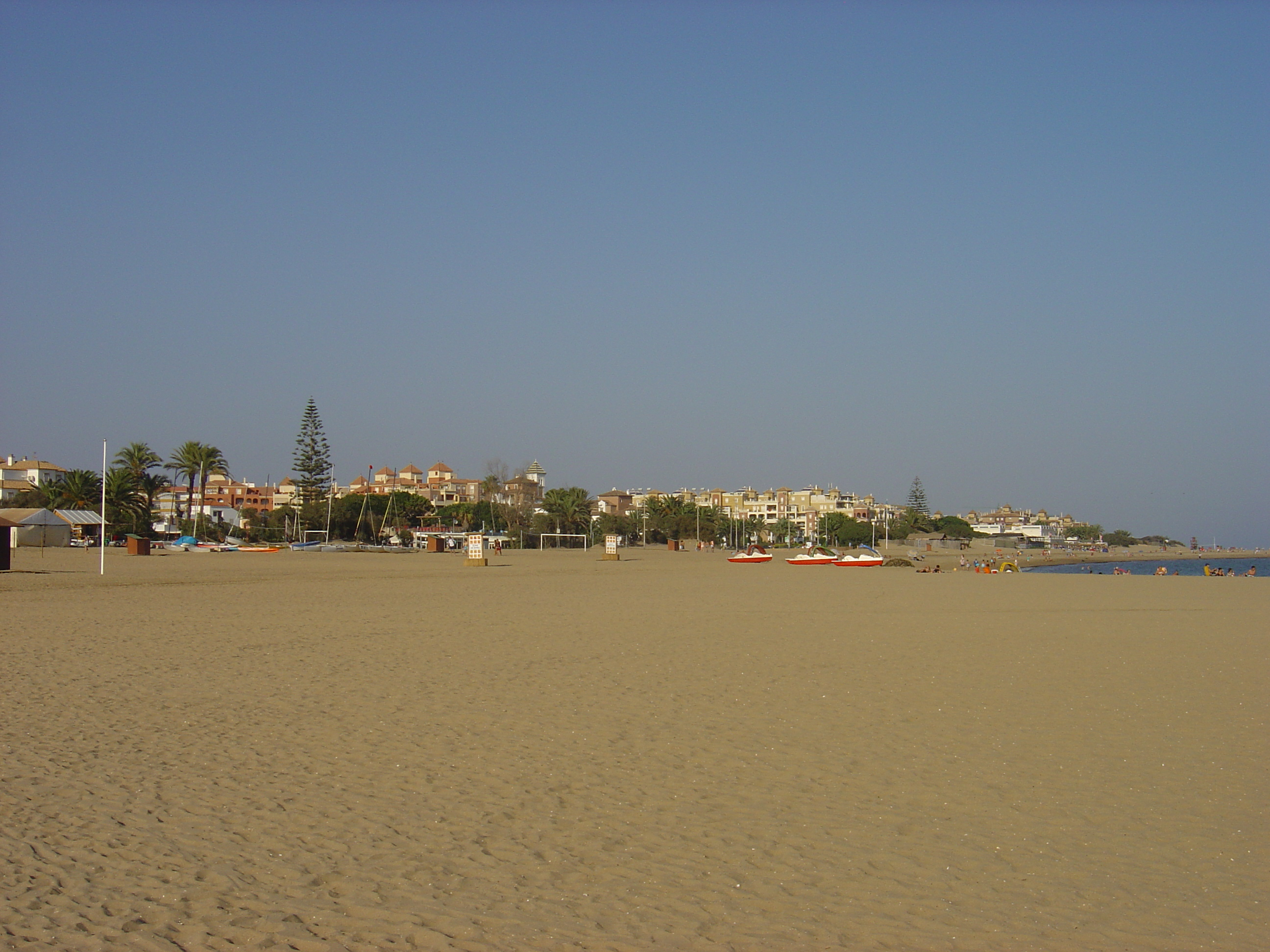 Isla Canela beach, Spain